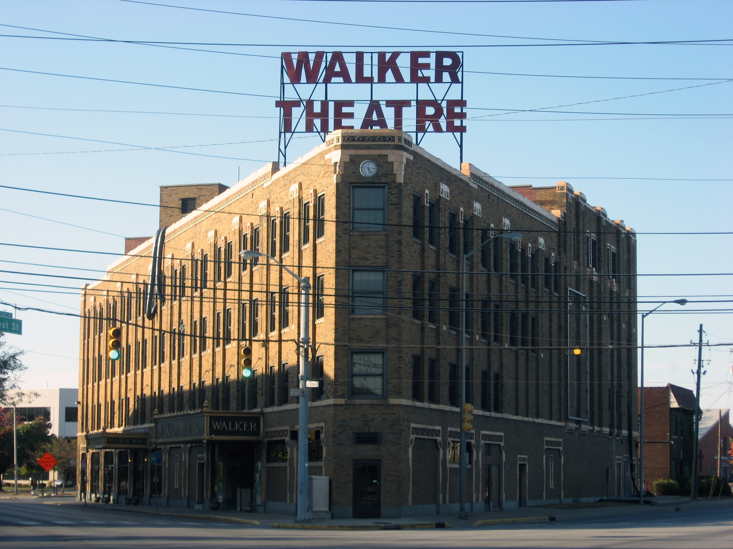 Front of the Madame C.J. Walker Manufacturing Company, located at 617 Indiana Avenue in Indianapolis, Indiana, United States. Built in 1927, it has been designated a National Historic Landmark.